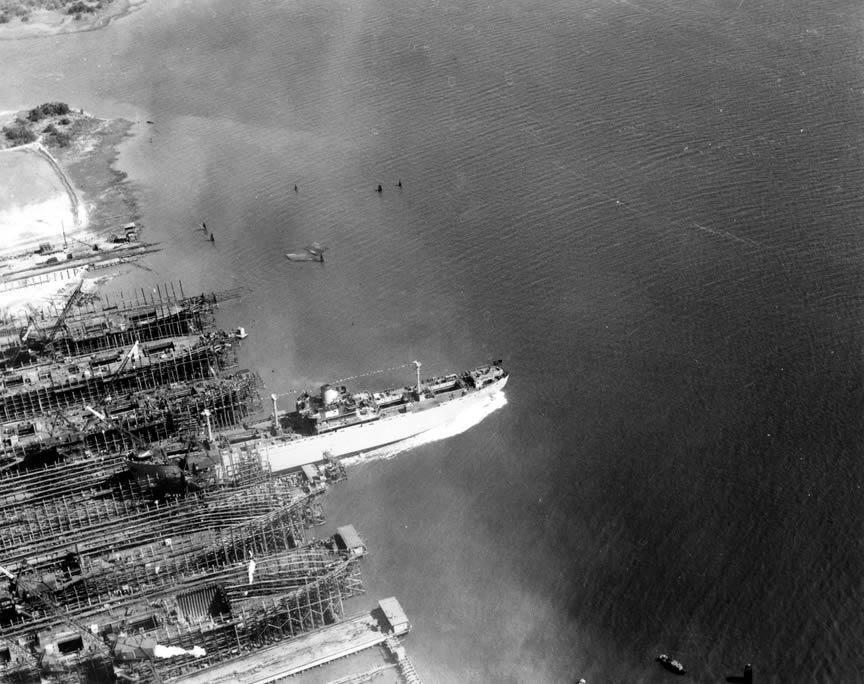 This historical image shows a Brunswick Liberty Ship launching from port. Courtesy of John Fahey.